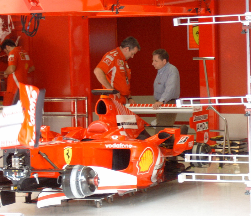 Nigel Stepney and Jeant Todt at the 2005 Italian GP